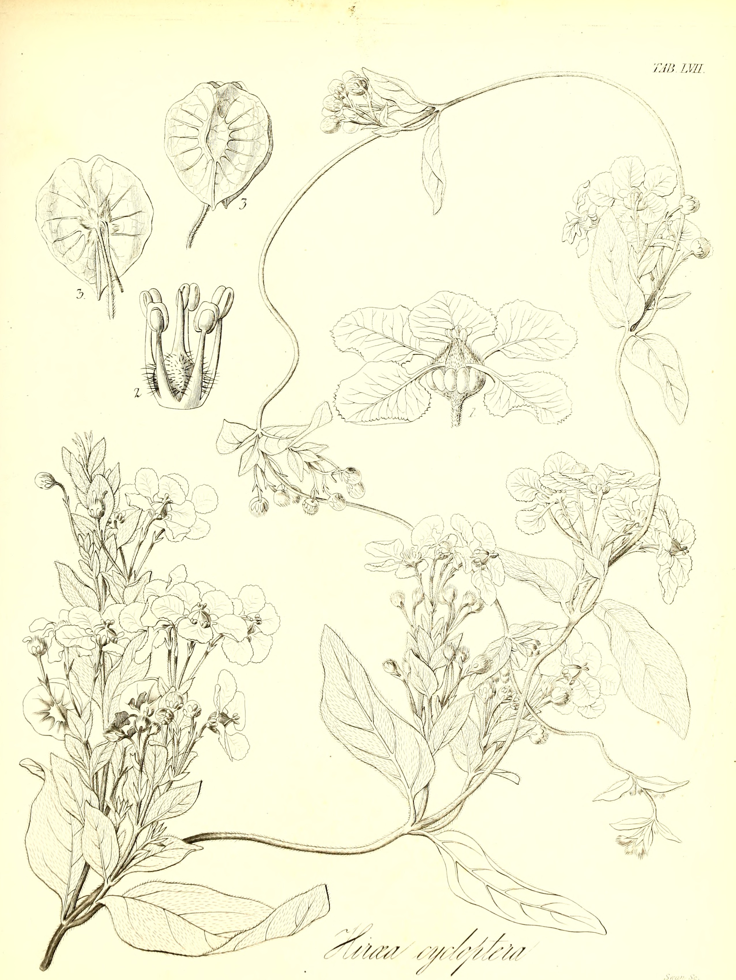 Title: The botany of Captain Beechey's voyage; comprising an acount of the plants collected by Messrs. Lay and Collie, and other officers of the expedition, during the voyage to the Pacific and Behring's Strait, performed in His Majesty's ship Blossom, under the command of Captain F. W. Beechey ... in the years 1825, 26, 27, and 28 Year: 1841 (1840s) Authors: Hooker, William Jackson, Sir, 1785-1865; Arnott, George Arnott Walker, 1799-1868, joint author; Beechey, Frederick William, 1796-1856 Subjects: Blossom (Ship); Botany; Botany; Botany Publisher: London, H. G. Bohn Text Appearing Before Image: ' Text Appearing After Image: '